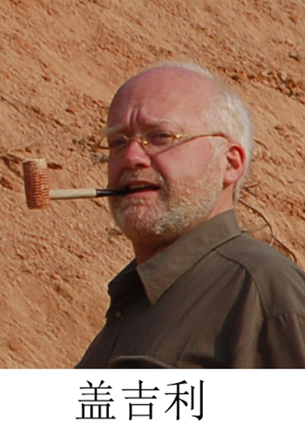 American Actor James Lee Guy 盖吉利 in the 2009 Chinese TV series "Youth not Wasted 青春不言败" portraying 70 year old Portuguese General Gomez.